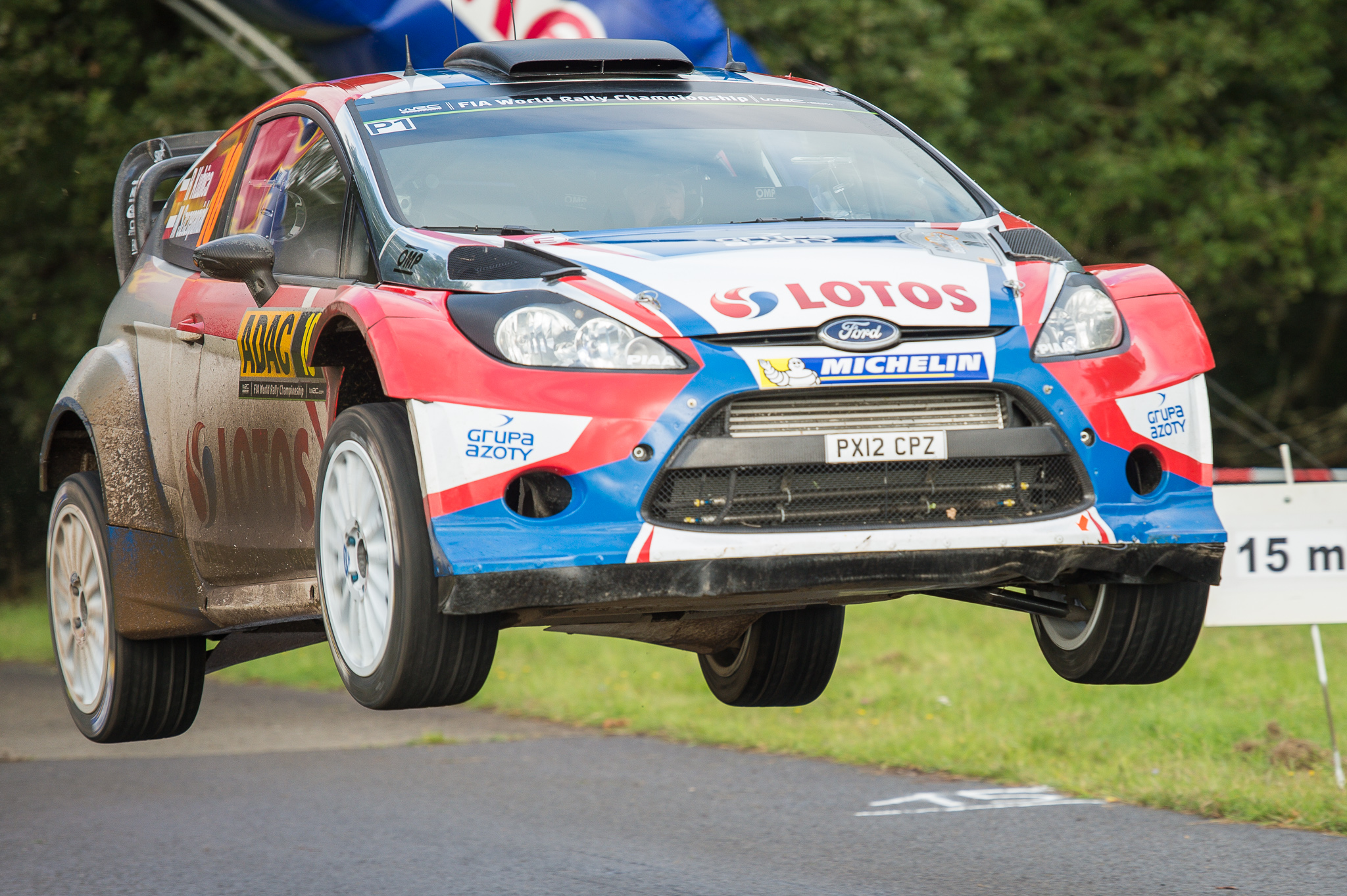 ADAC Rallye Deutschland 2014,FIA,FIA World Rally Championship,Ford Fiesta RS WRC,Gina,Maciej Szczepaniak,Motorsport,Panzerplatte,RK M-Sport WRT,RK M-sport World Rally Team,Rally,Rallye,Robert Kubica,SS10,WP10,WRC